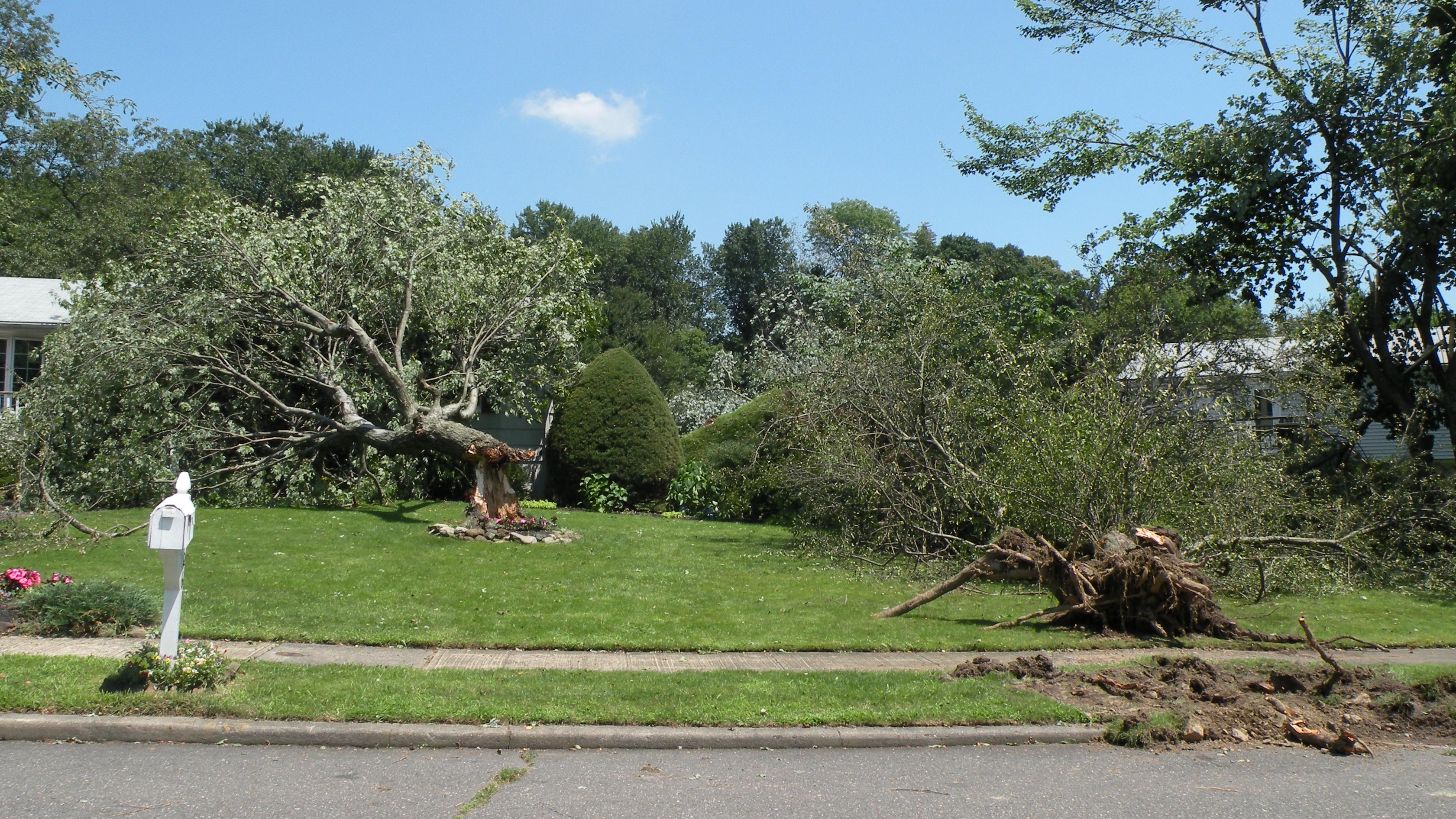 Tree damage from a downburst in Milford, Connecticut on July 31, 2009.